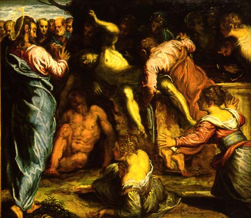 The Raising of Lazarus